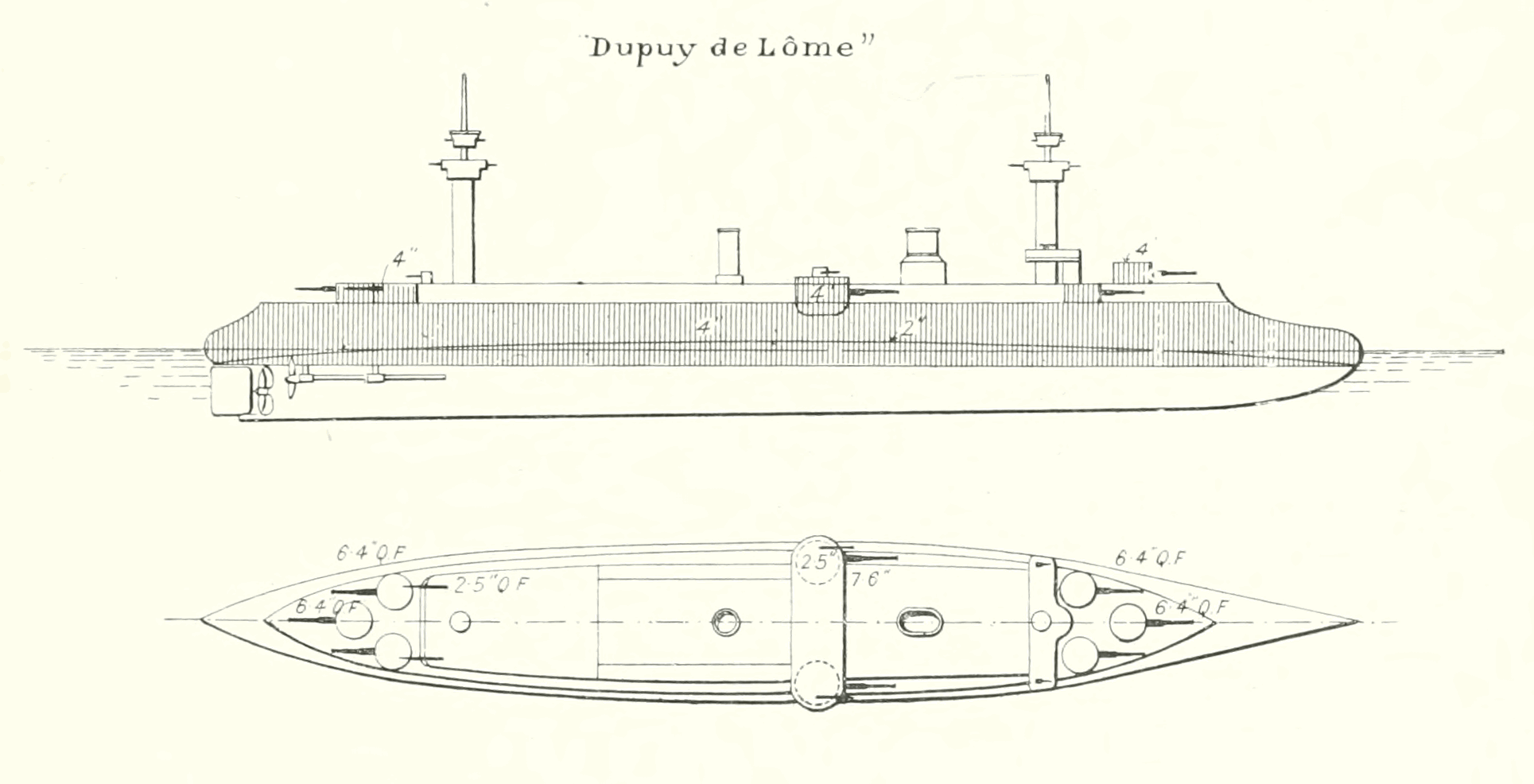 Rough sketch of the French armoured cruiser Dupuy de Lôme - with armour marked with lines.